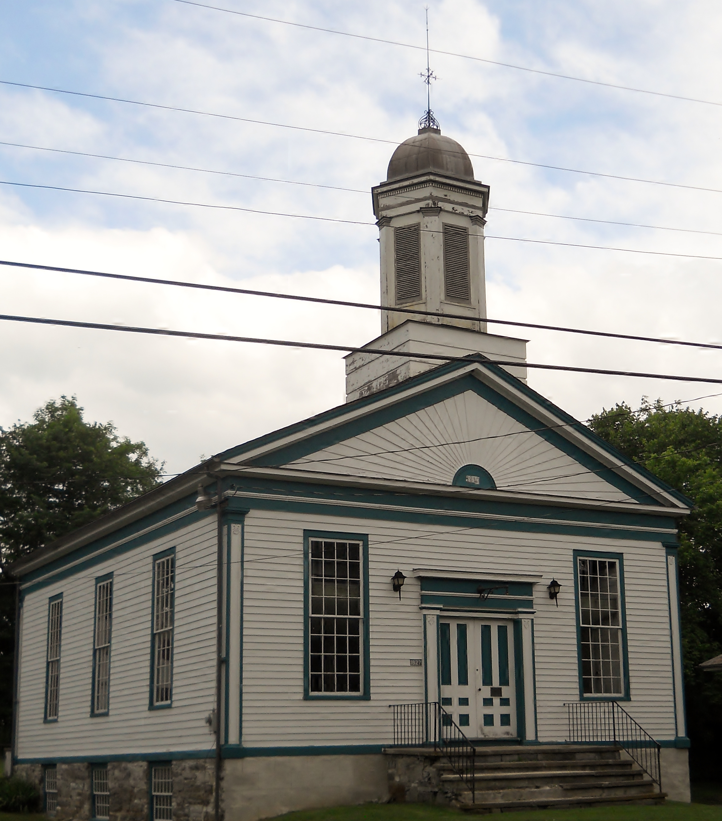 This is the Weybridge Town Hall located on Quaker Village Road in the Weybirdge village in Weybridge, Vermont